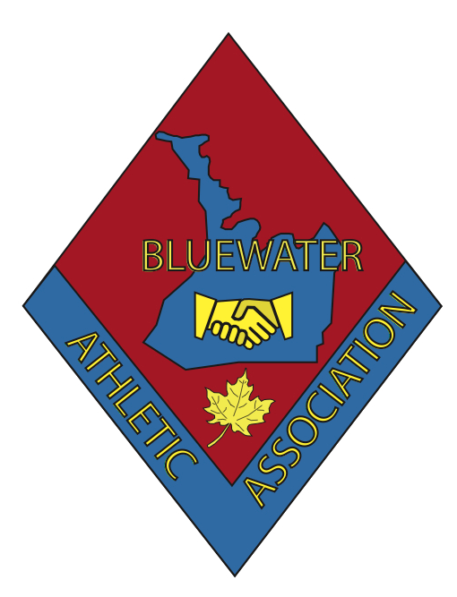 Logo of the Bluewater Athletic Association